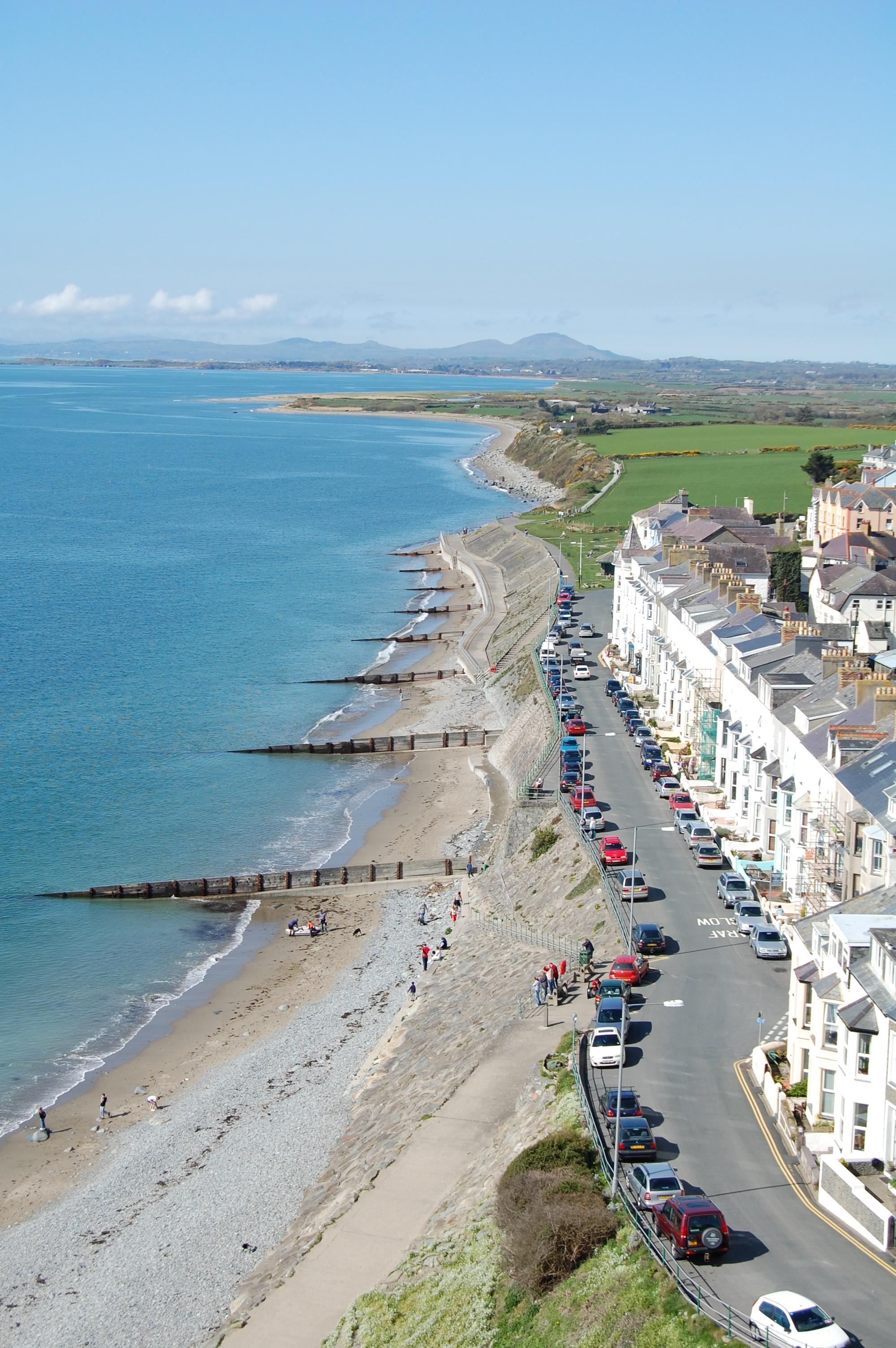 Min-y-Mor, Criccieth